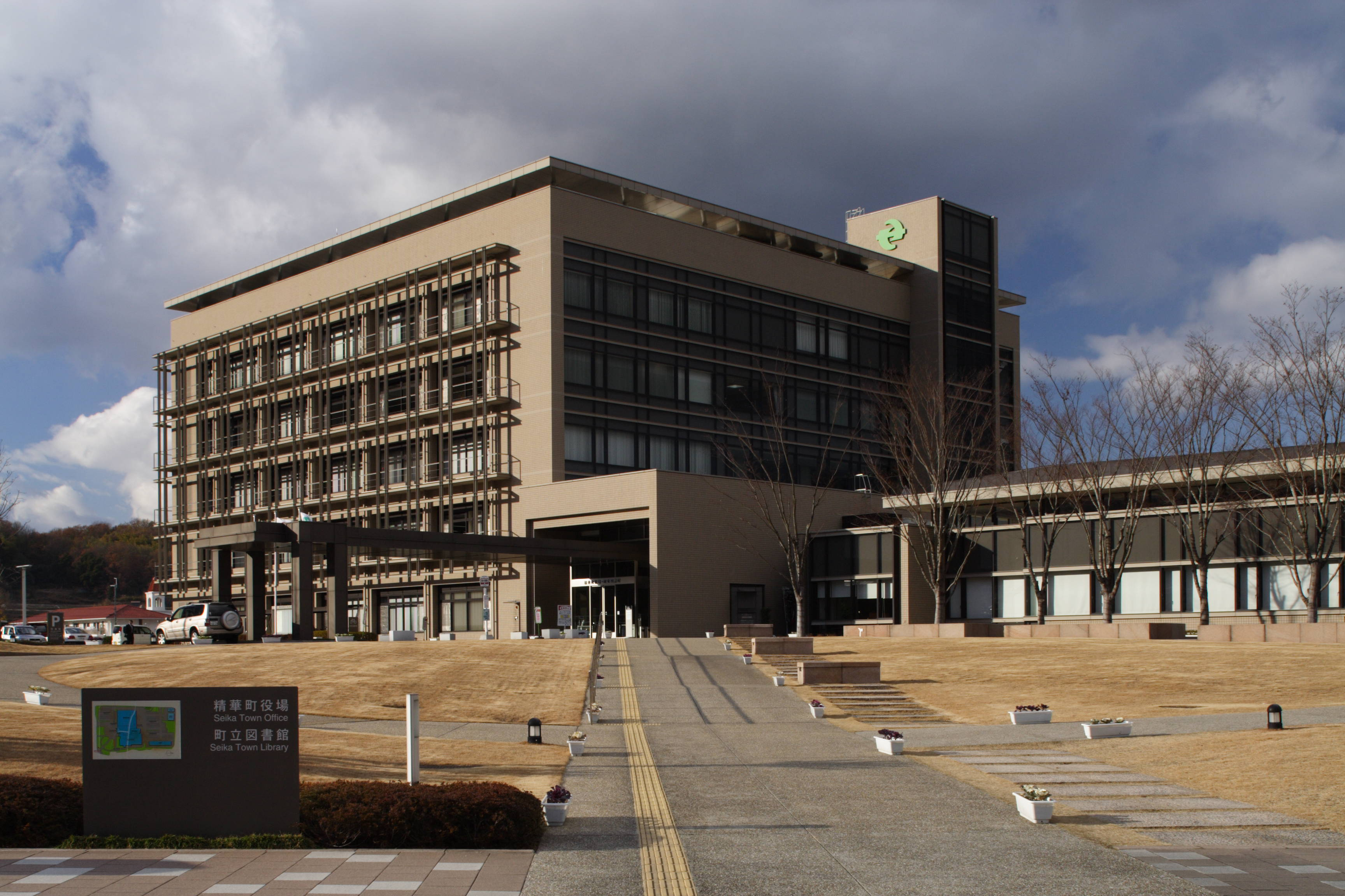 Town hall of Seika town Kyoto, Japan/精華町役場・精華町図書館